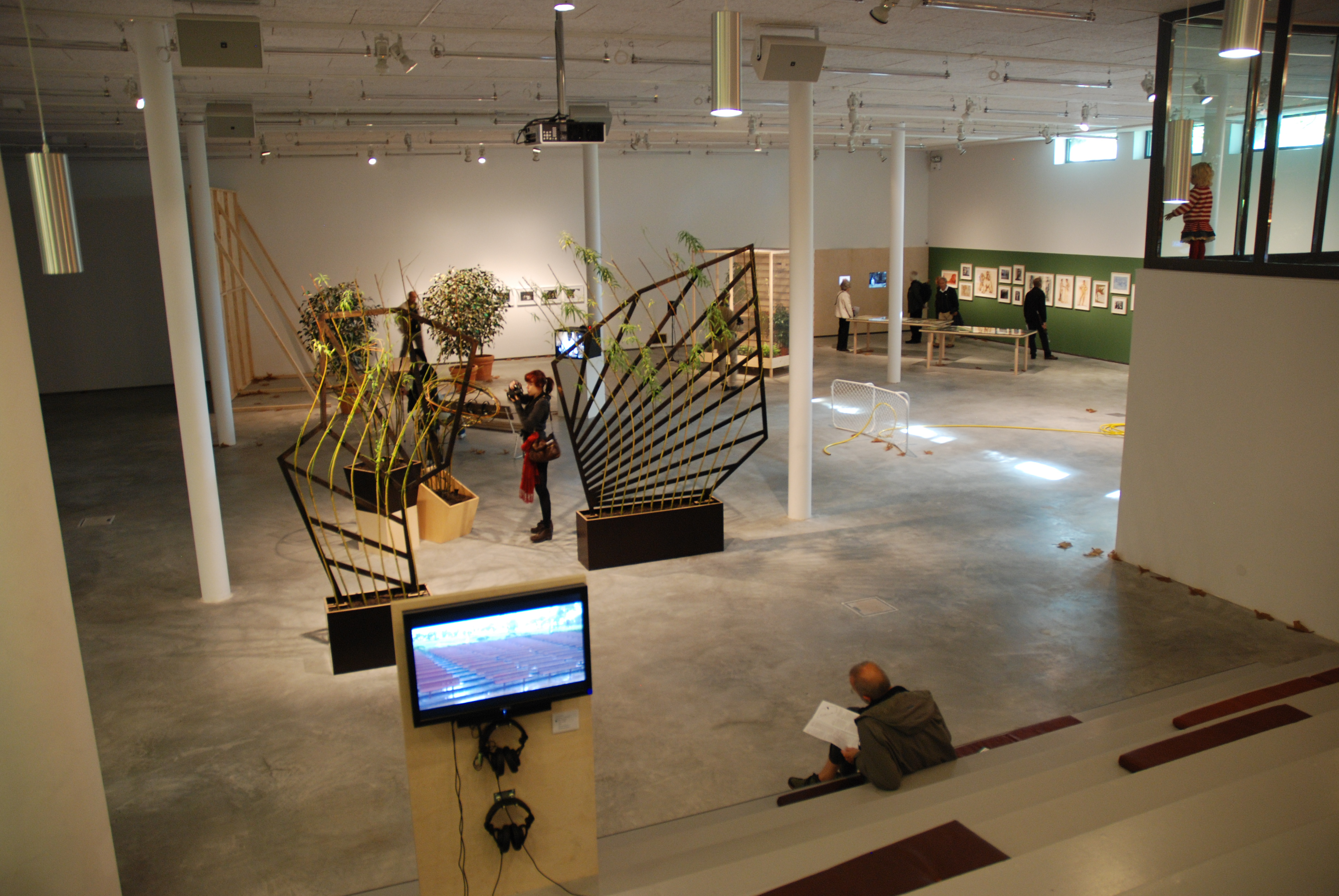 Marabouparken Art Exhibition Hall, Sundbyberg, Sweden